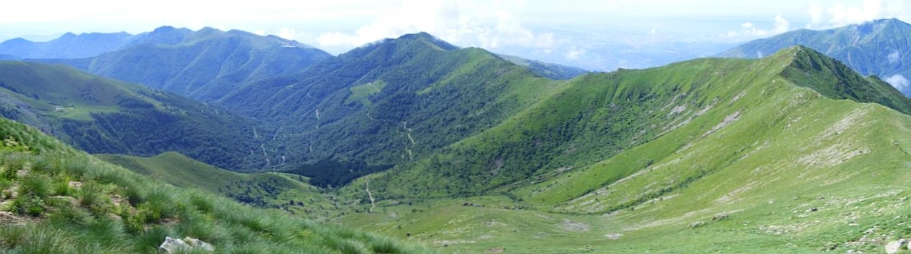 Panorama of Valsessera from Cima delle Guardie (on the right side Cima del Bonom, Colma Bella and Monticchio) - BI, Italy